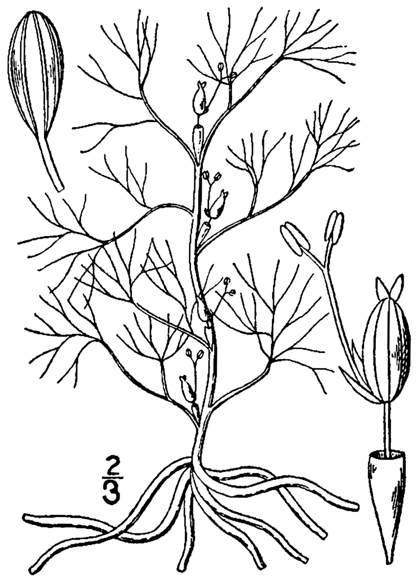 Podostemum ceratophyllum Michx. - hornleaf riverweed